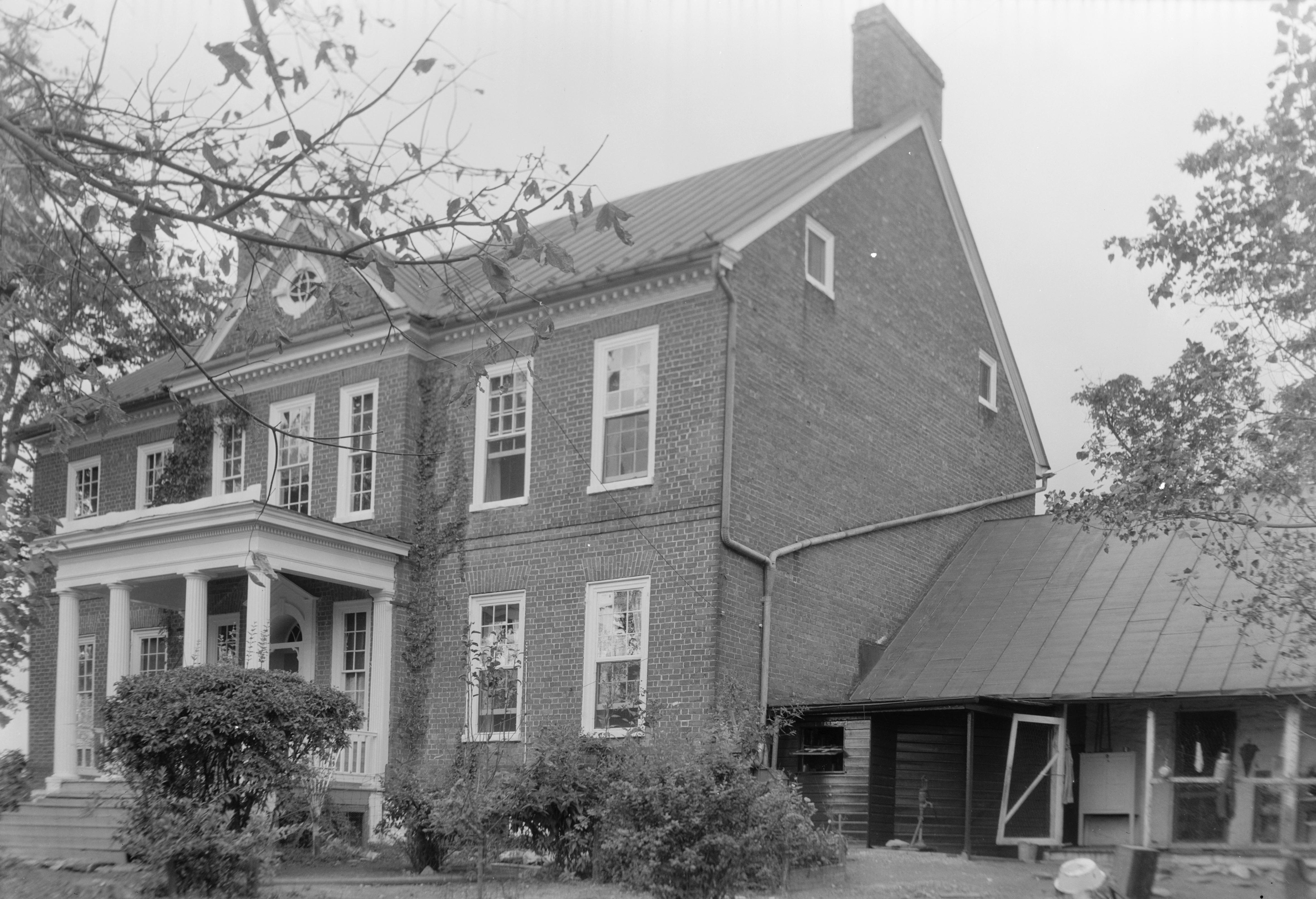 Front and side of the Robert Worthington House (also known as "Piedmont"), located off WV 51 west of Charles Town in Jefferson County, West Virginia, United States. Built in 1735, it is listed on the National Register of Historic Places.